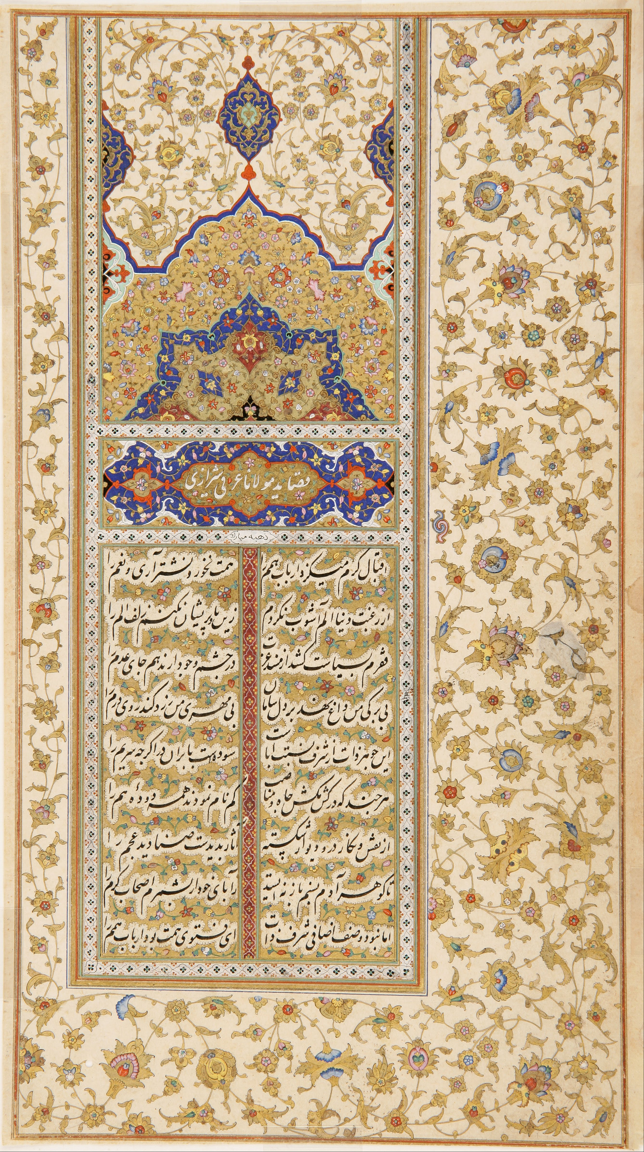 Sayyed Jamal al-Din Muhammad b. Zaiyn al-Din Shirazi, the author of this Qasida, was a native of Shiraz and adopted the pseudonym Urfi in honour of his father. Then Urfi became the favorite poet of Akbar and also Jahangir, his successor. These initials sheets show the delicacy and original talent of the artists and Safavids copyists to carry out the books. A sober jadval framed the text in thin and firm nastaliq calligraphy, in two columns.